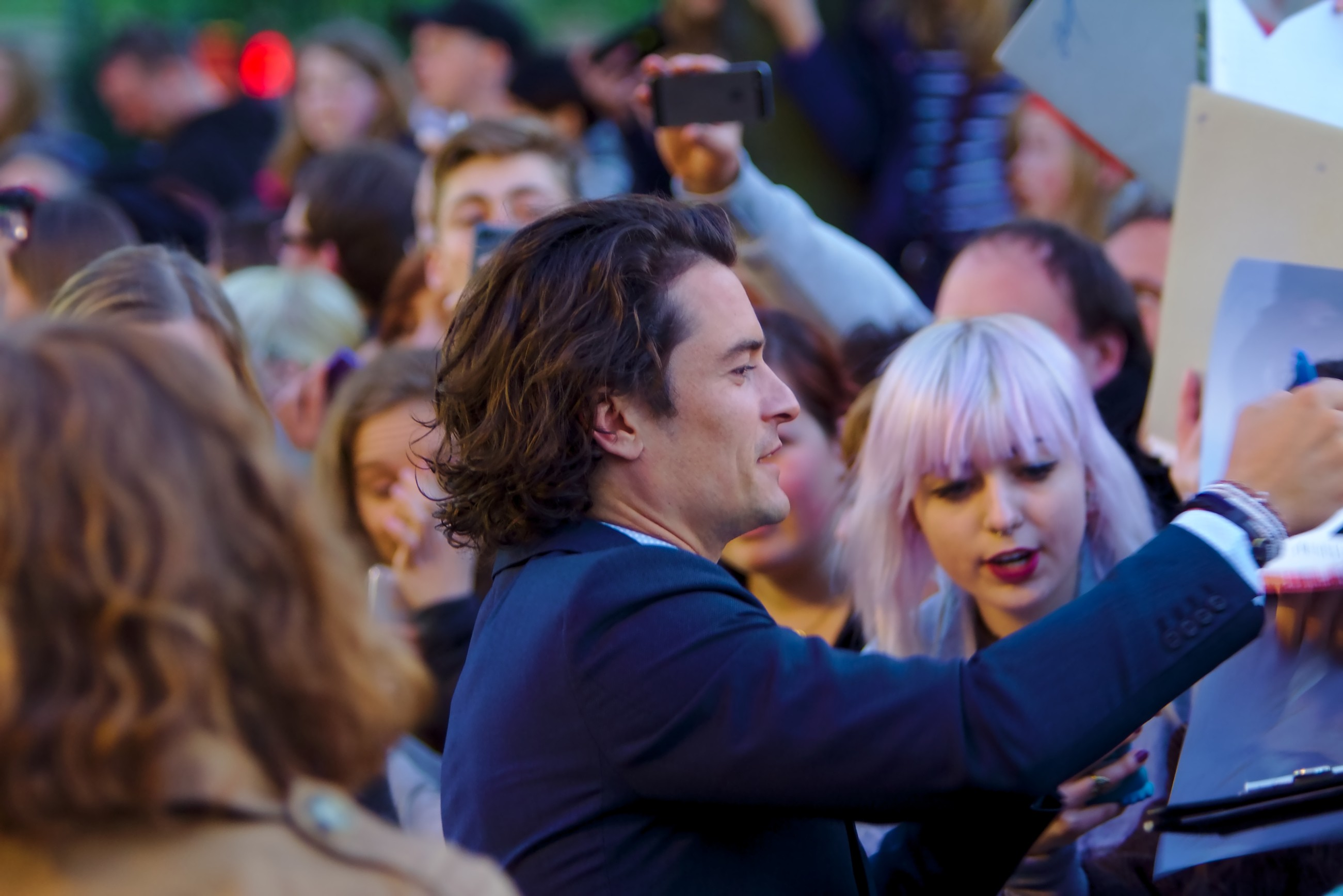 Filmpremiere "Zulu" in Hamburg, 5. Mai 2014